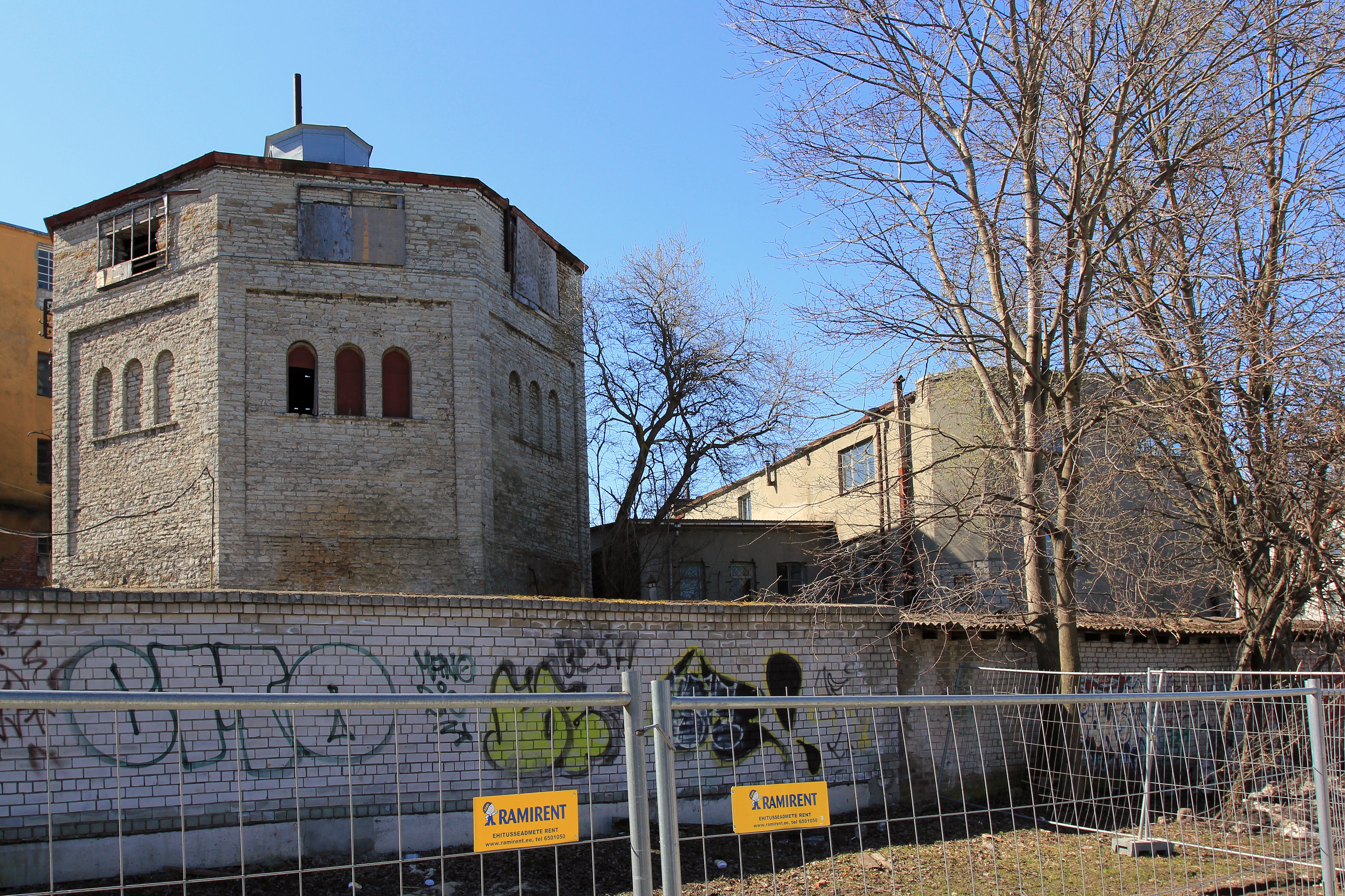 Gasometer of the old gas plant of Tallinn.